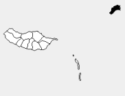 Location of Porto Santo (Madeira)